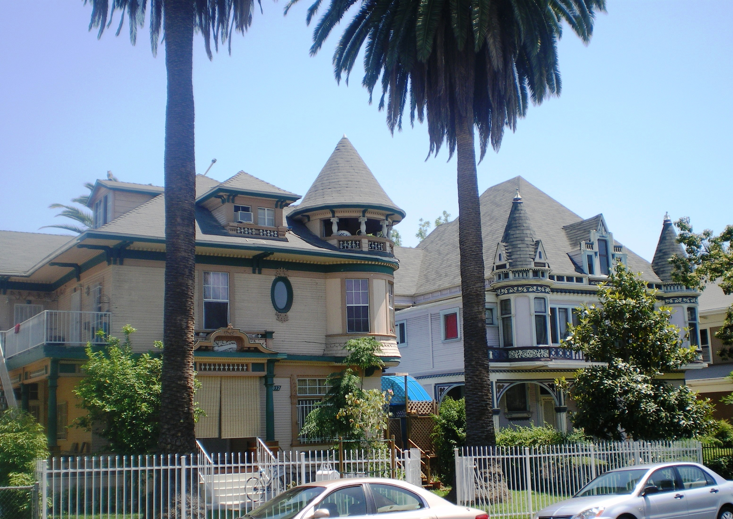 Houses at 1032 and 1036 S. Bonnie Brae St., South Bonnie Brae Tract Historical District, Pico-Union district, Los Angeles, California. The 1890s Victorian Queen Anne Style houses are Los Angeles Historic-Cultural Monuments.